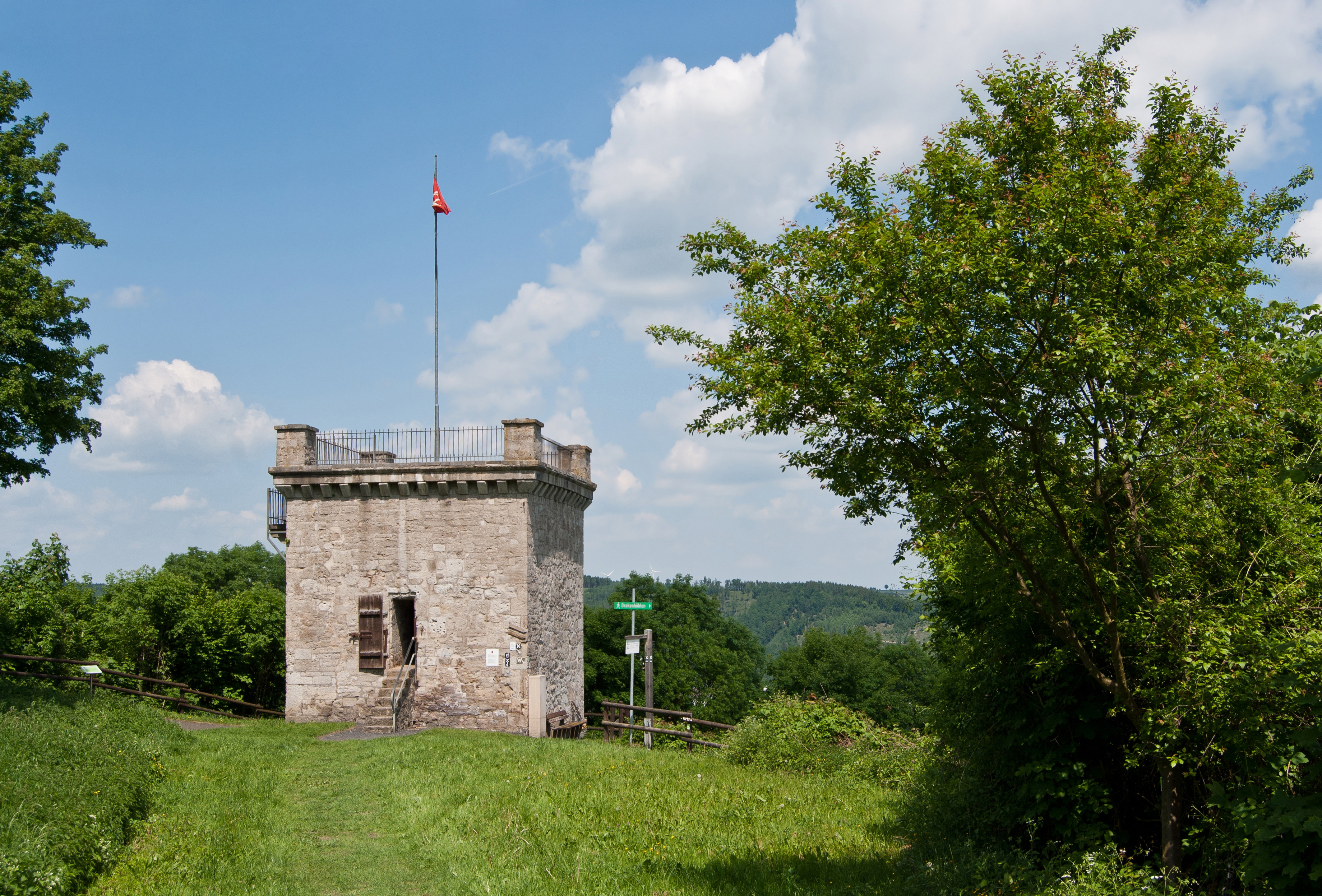 Marsberg (North Rhine-Westphalia, Germany) – district Obermarsberg – observation tower Buttenturm (former watch tower) This image shows a heritage building in Germany, located in the North Rhine-Westphalian city Marsberg (no. 48). This photograph was taken with a Nikon D3000